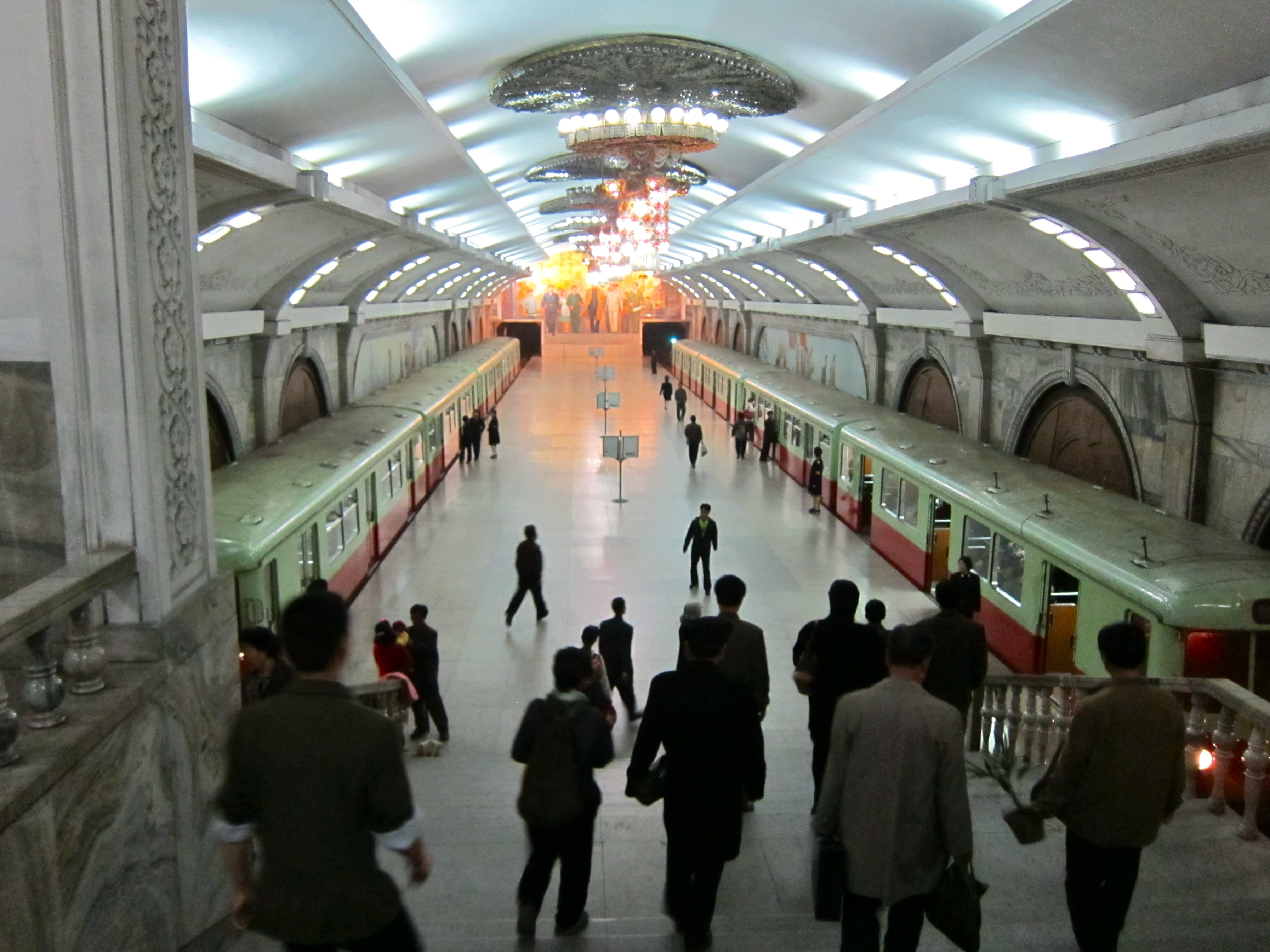 Pyongyang Metro, Pyongyang in North Korea.